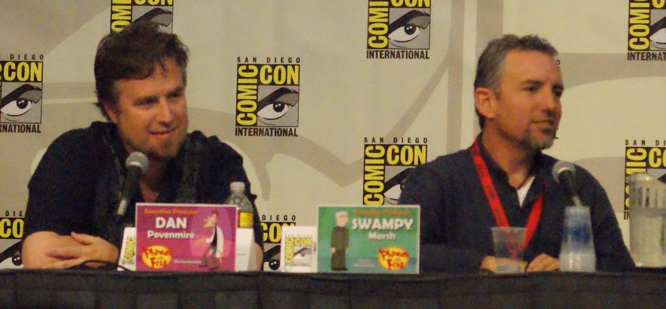 Dan Povenmire and Jeff "Swampy" Marsh at Comic-Con 2009.